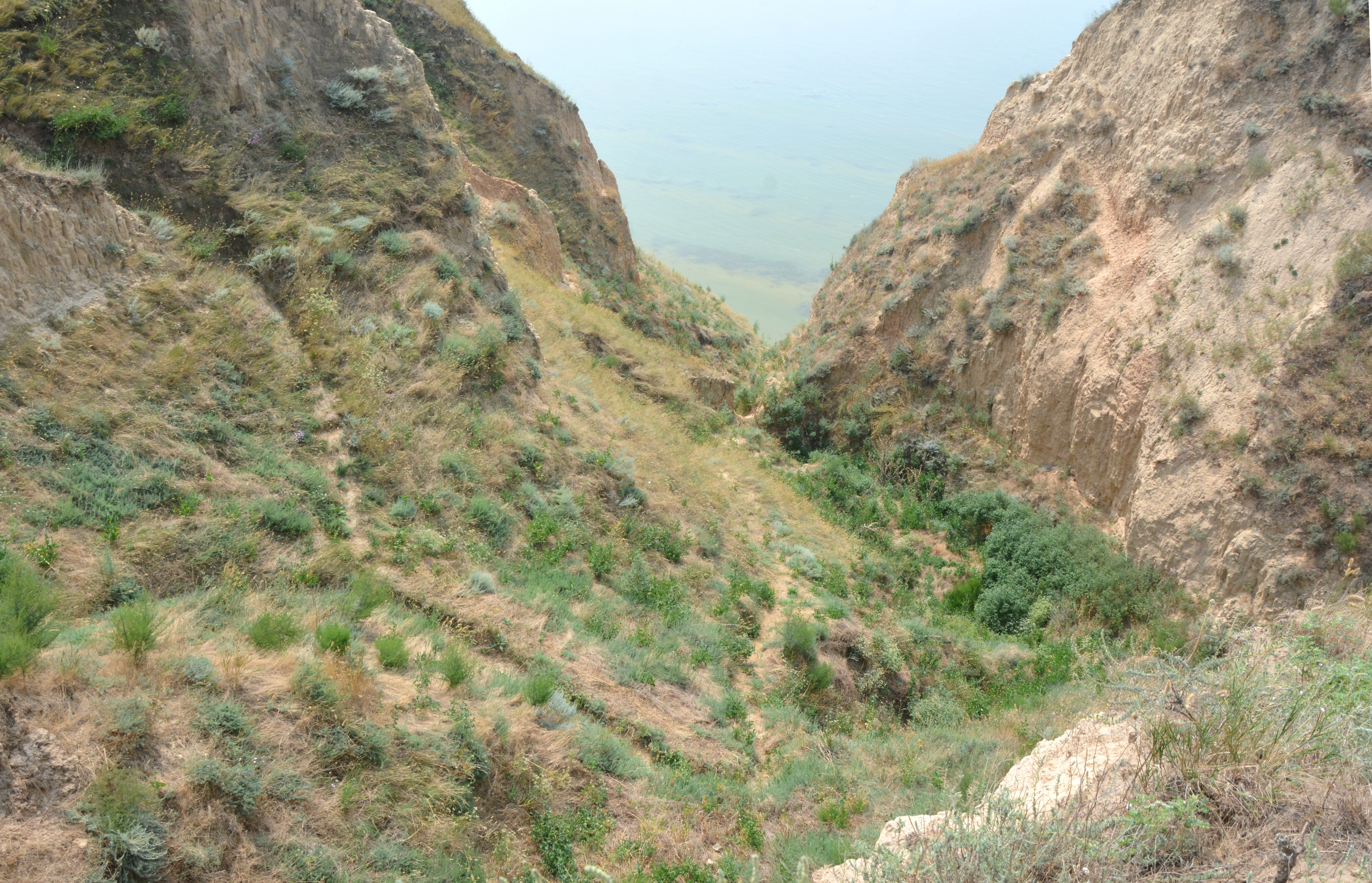 Borders and entrances to Stanislav ancient settlement which is a multi-layers monument of history and archeology and have been populated in several stages – since establishing the settlement of Late Bronze Age of Bilozerka archeological culture in XII-XI century B.C. until populating the settlement by Chernyakhov culture representatives in I-IV century A.D. In I century A.D. the settlement was fortified. Located in the outskirts of Stanislav village in Bilozeskiy raion of Kherson region in Ukraine. This site of the ancient settlement was discovered by archeologist Oleksiy Uvarov in 1848, the last full-scale excavations were carried out in years of 1982 and 1988-1991